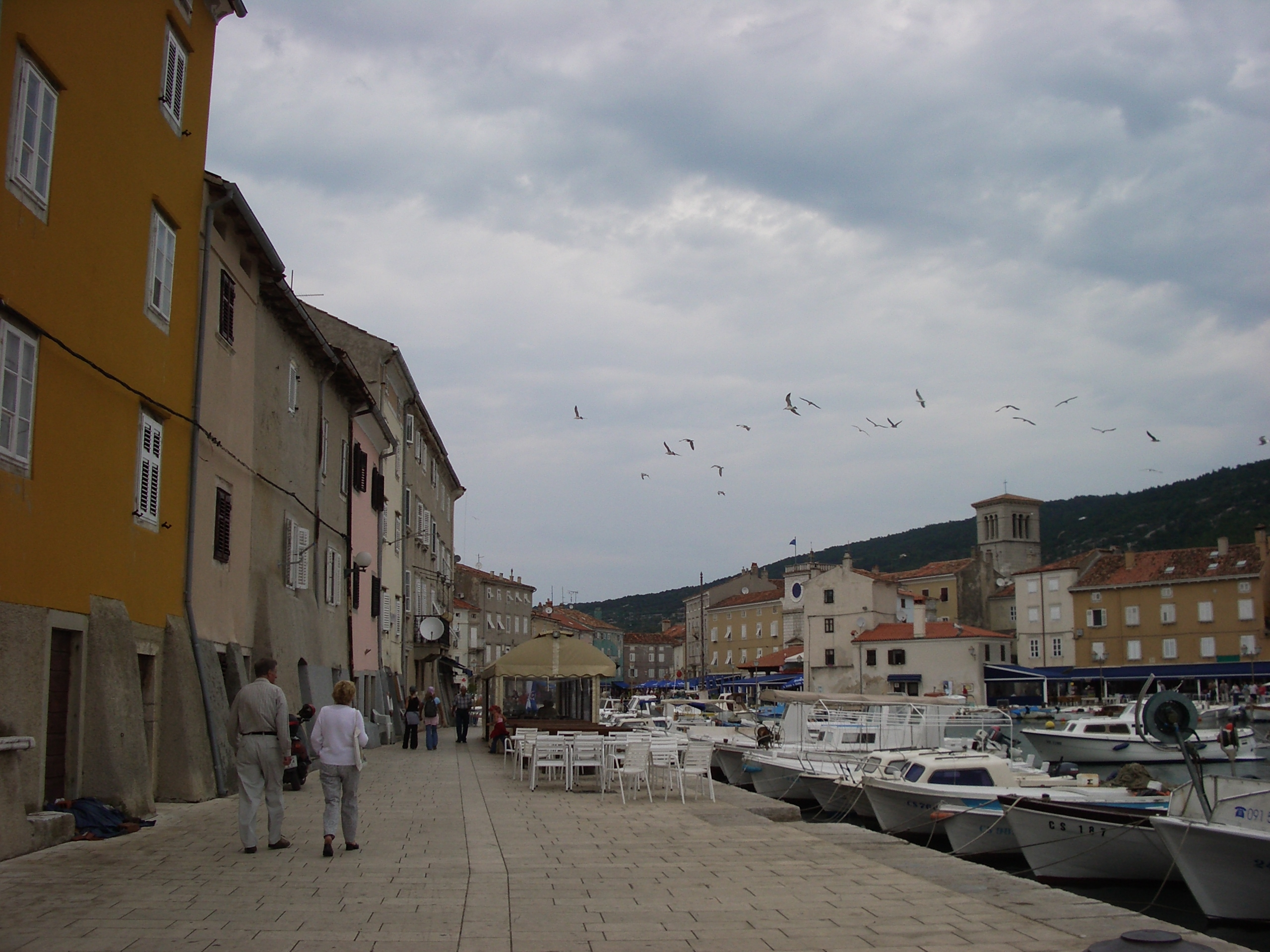 Port of Cres, island and city of Istria, region in Croatia.